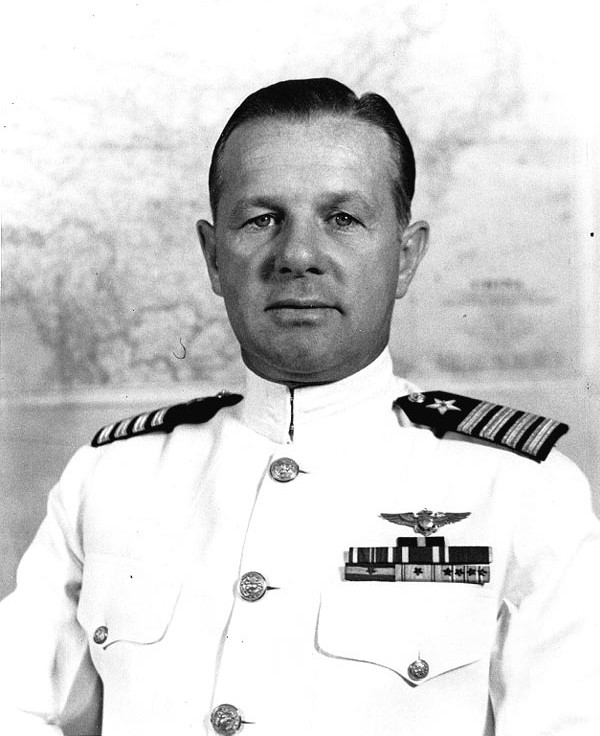 Captain Clarence Wade McClusky, Jr., USN. Photo #: NH 93189